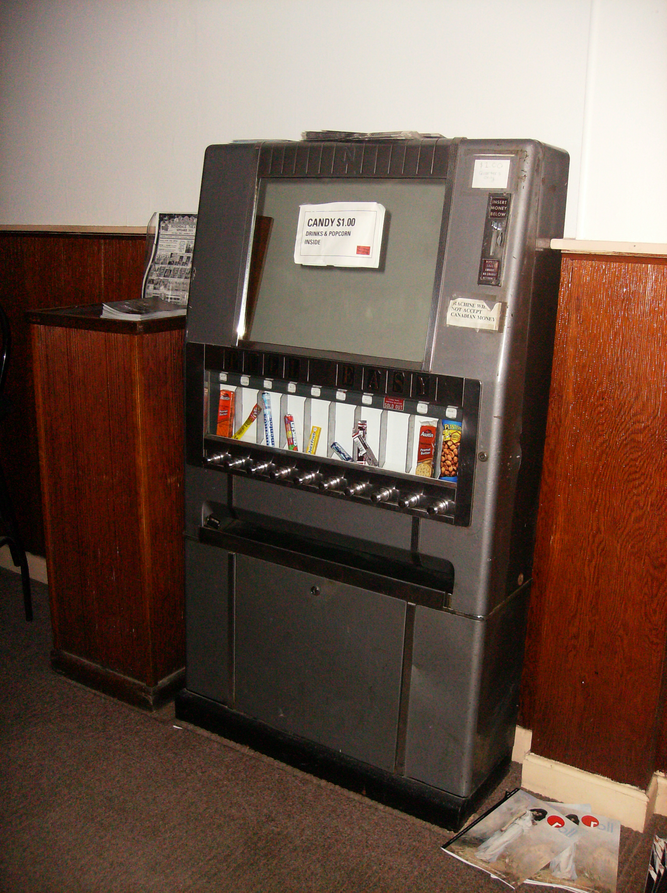 An old vending machine that dispenses candy, in the Rosendale Theatre lobby.